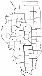 Category:Illinois city locator maps